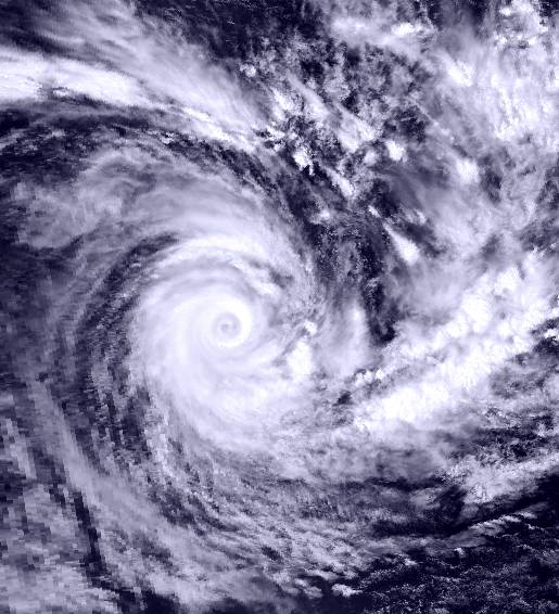 Tropical Cyclone Drena undergoing eyewall replacement cycles on January 6, 1997.